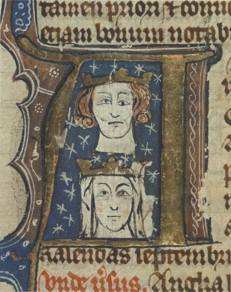 Early fourteenth century manuscript initial showing Edward I of England and Eleanor of Castile wearing their crowns.